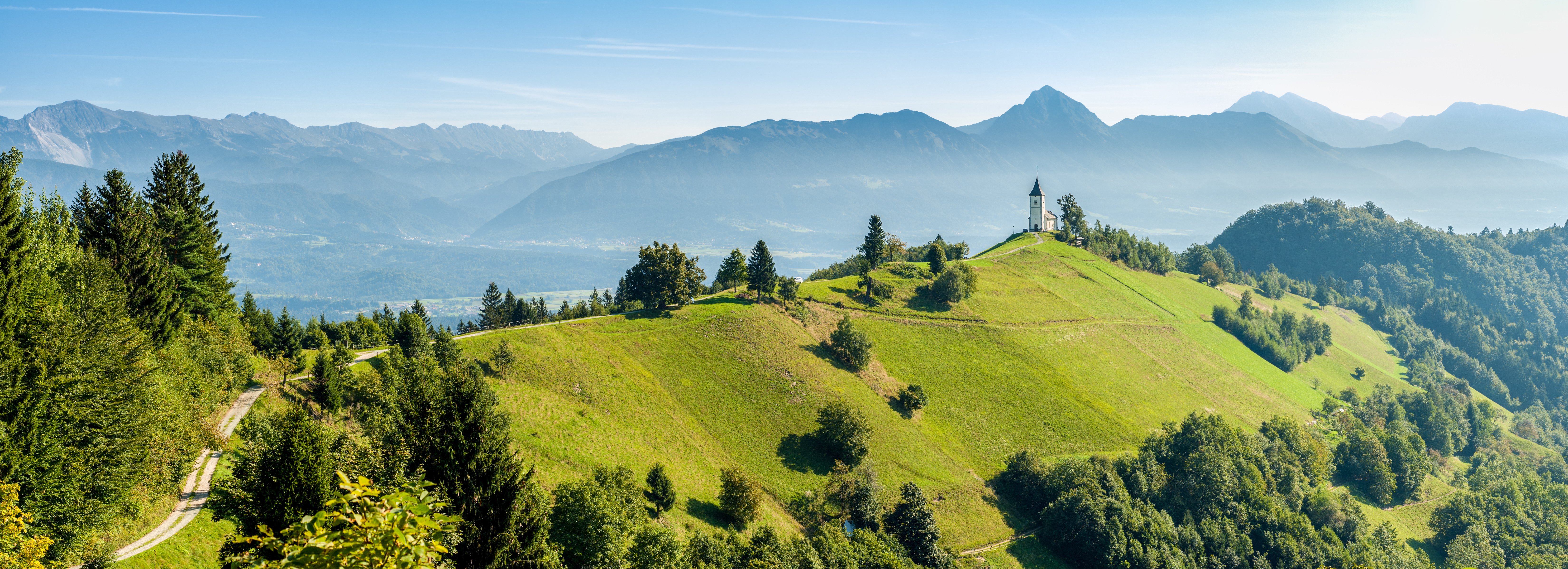 View towards Church of Saints Primus and Felician in Jamnik.